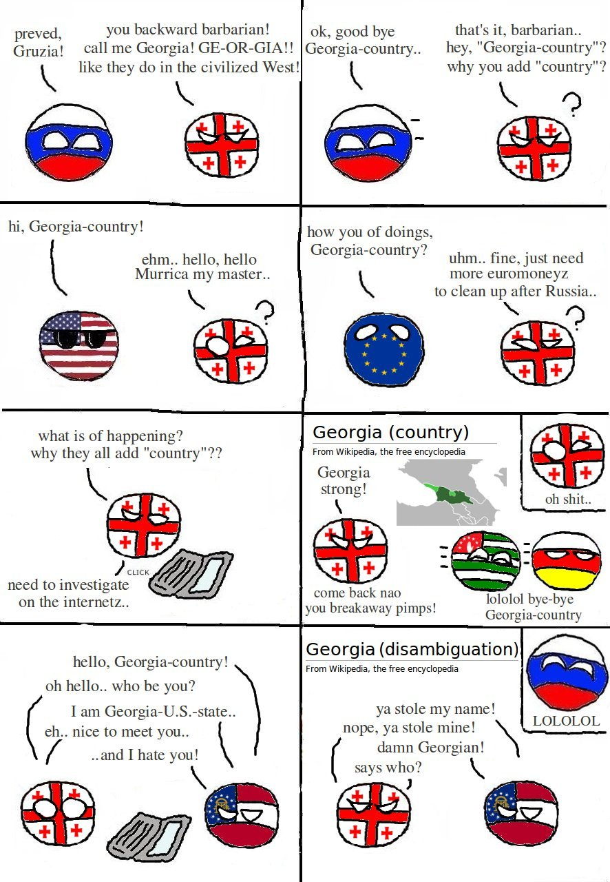 Georgia (country) and Georgia (U.S. state) have into WP:Disambiguation. Such Countryballs/stateballs.